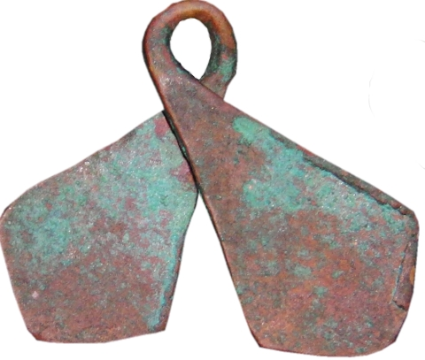 Single Fanery (Copper)